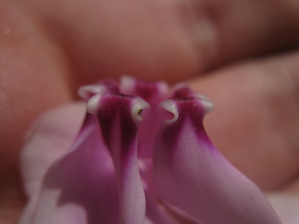 Auricles on a fallen Cyclamen hederifolium corolla.